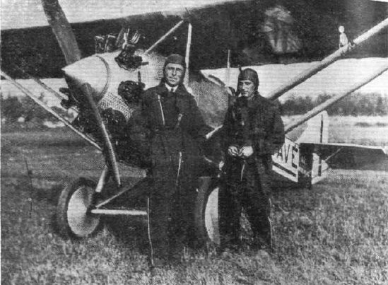 Fiat AS.1 aircraft of Francis Lombardi (left) and Gino Capannini, after a flight from Vercelli to Tokio